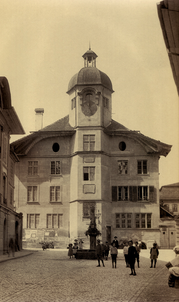 The old Lateinschule (Latin School) from 1577 located at the end of the Herrengasse. From the time of the construction (1885) of the Gymnasium (Secondary School) until 1903 it was the school library. The building was destroyed in 1906